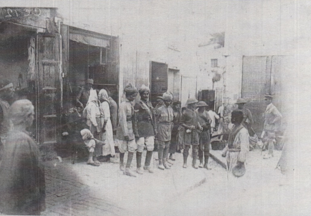 Nazareth after being captured by the Gloucester Yeomanry and 18th King George's Own Lancers, 13th Brigade.